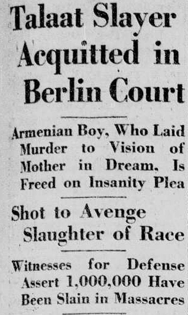 News article about the assassination of Talat Pasha by Soghomon Tehlirian